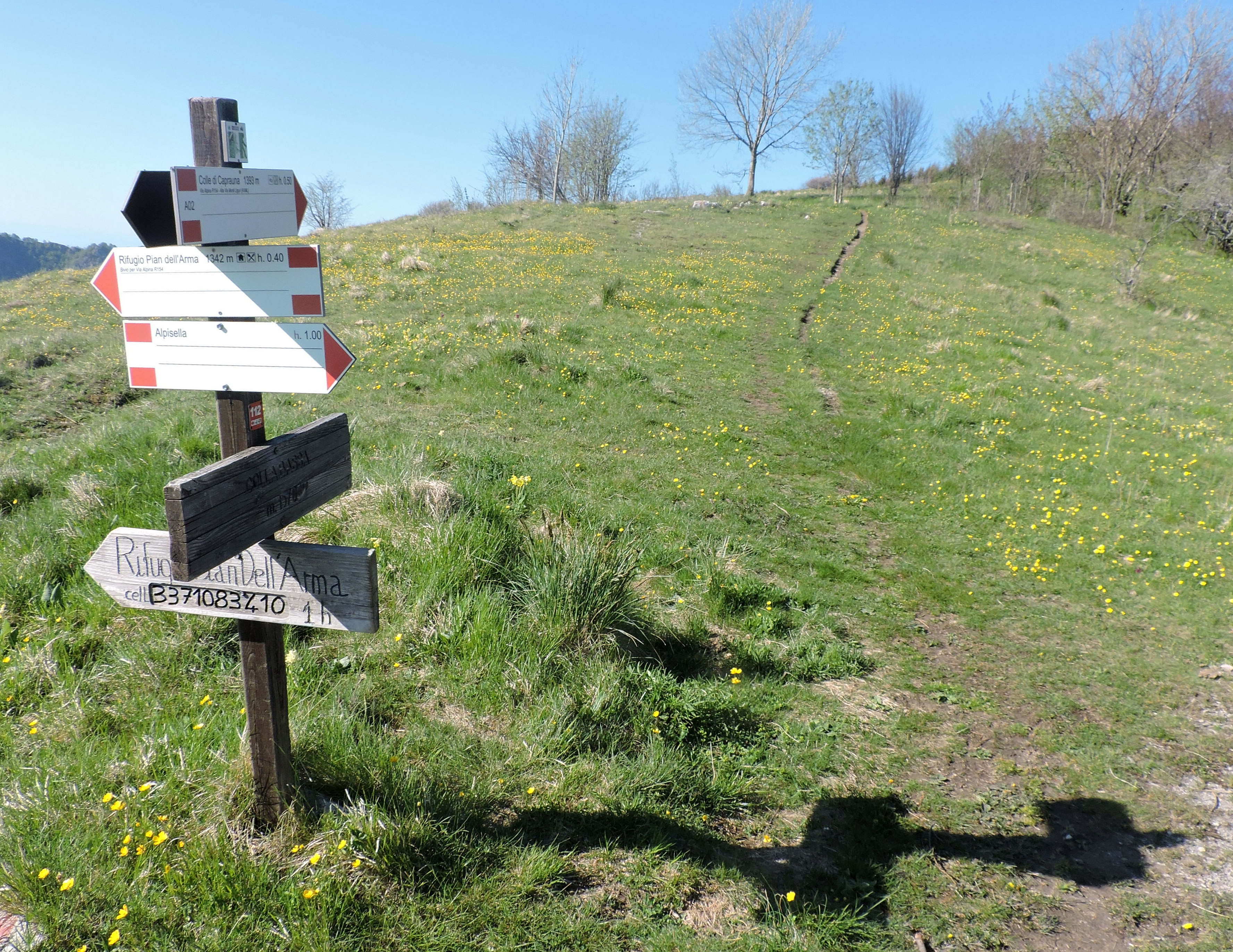 Colla Bassa (Ligurian Prealps) hiking signs